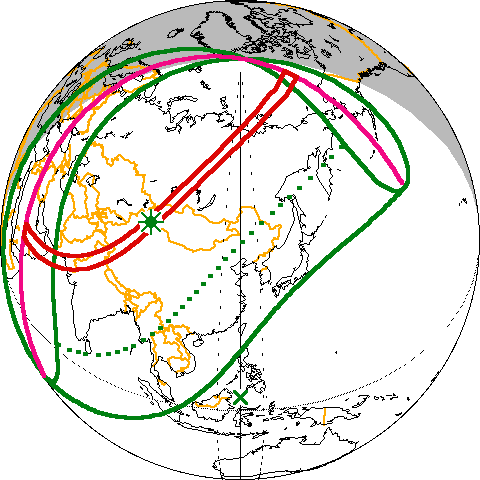 Solar eclipse map of path on earth. Solar eclipse of April 13, 1308 BC